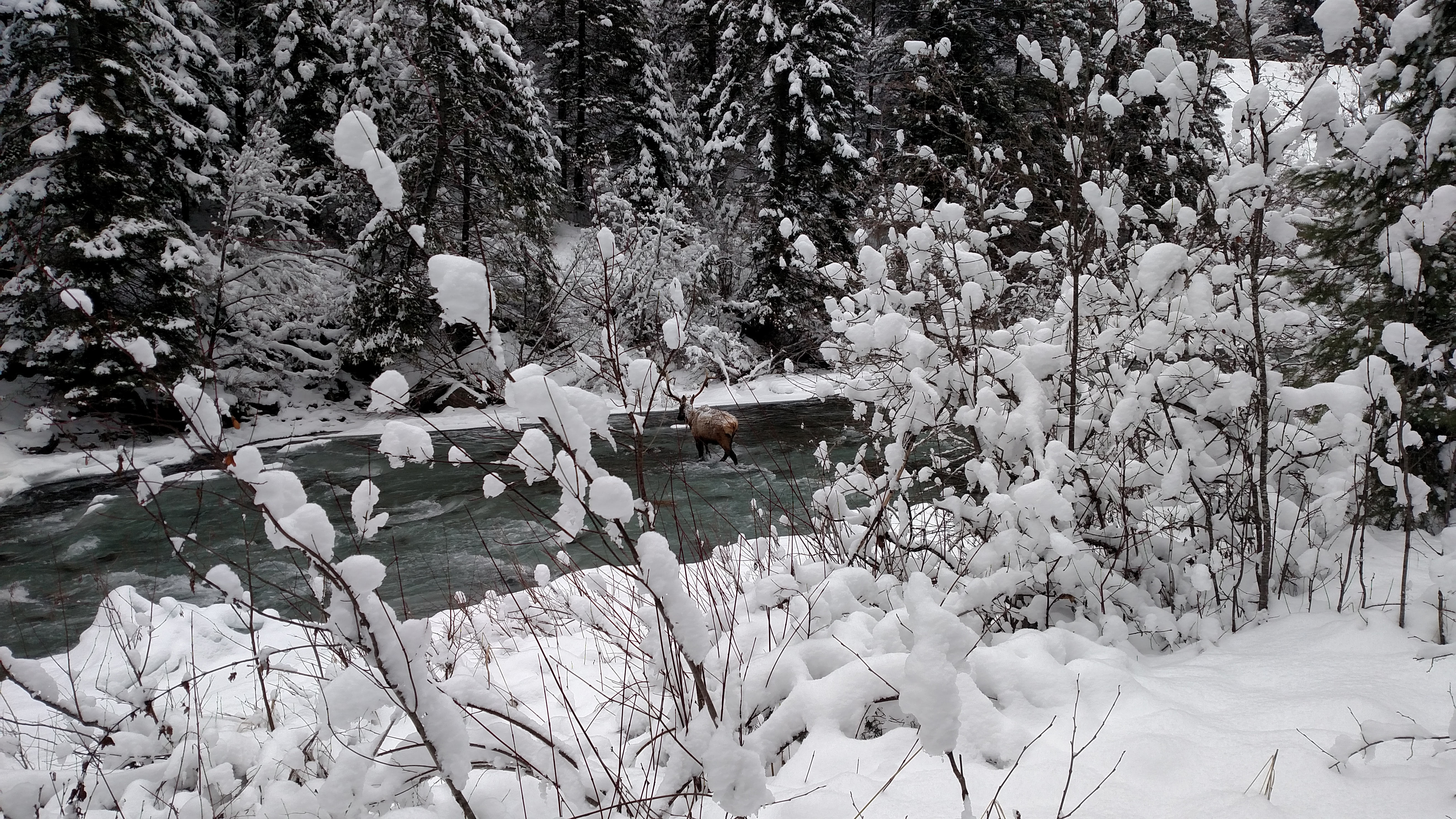 Winter scene from the St. Joe Ranger District, Avery Idaho, Idaho Panhandle National Forest, photos by Christine Plourde, District Recreation Staff